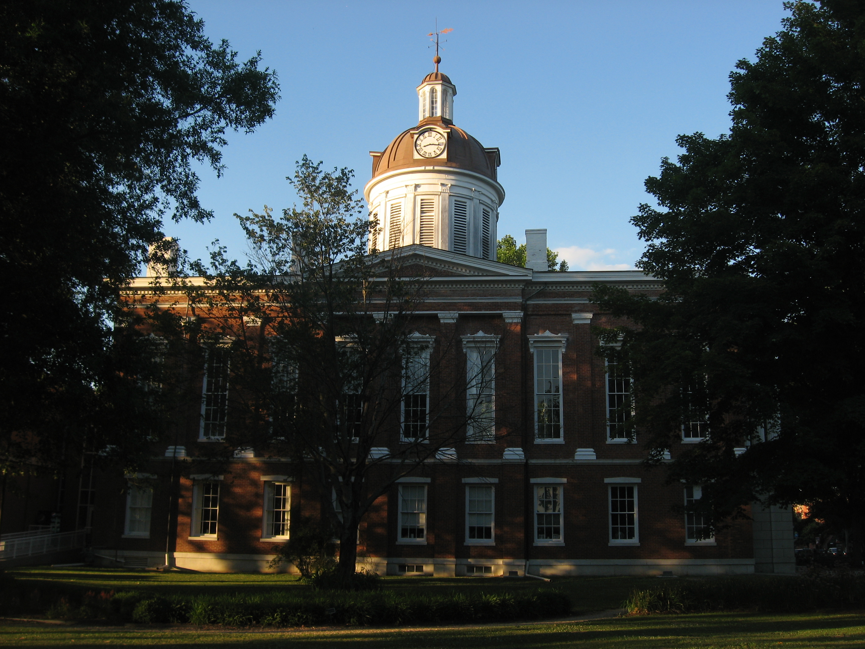 Western side of the Switzerland County Courthouse, located on Courthouse Square in Vevay, Indiana, United States. Built in 1864, it is listed on the National Register of Historic Places, and it is part of the locally-designated Vevay Historic District.